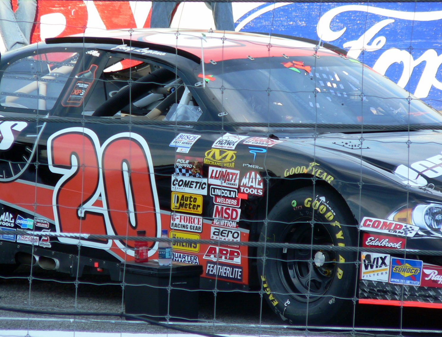 2007 NASCAR Busch East Series champion racecar of Joey Logano at the Nashville 150 event.